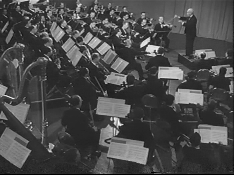 Arturo Toscanini with NBC Symphony Orchestra from "Hymn of the Nations". And playing the "La forza del destino" Overture